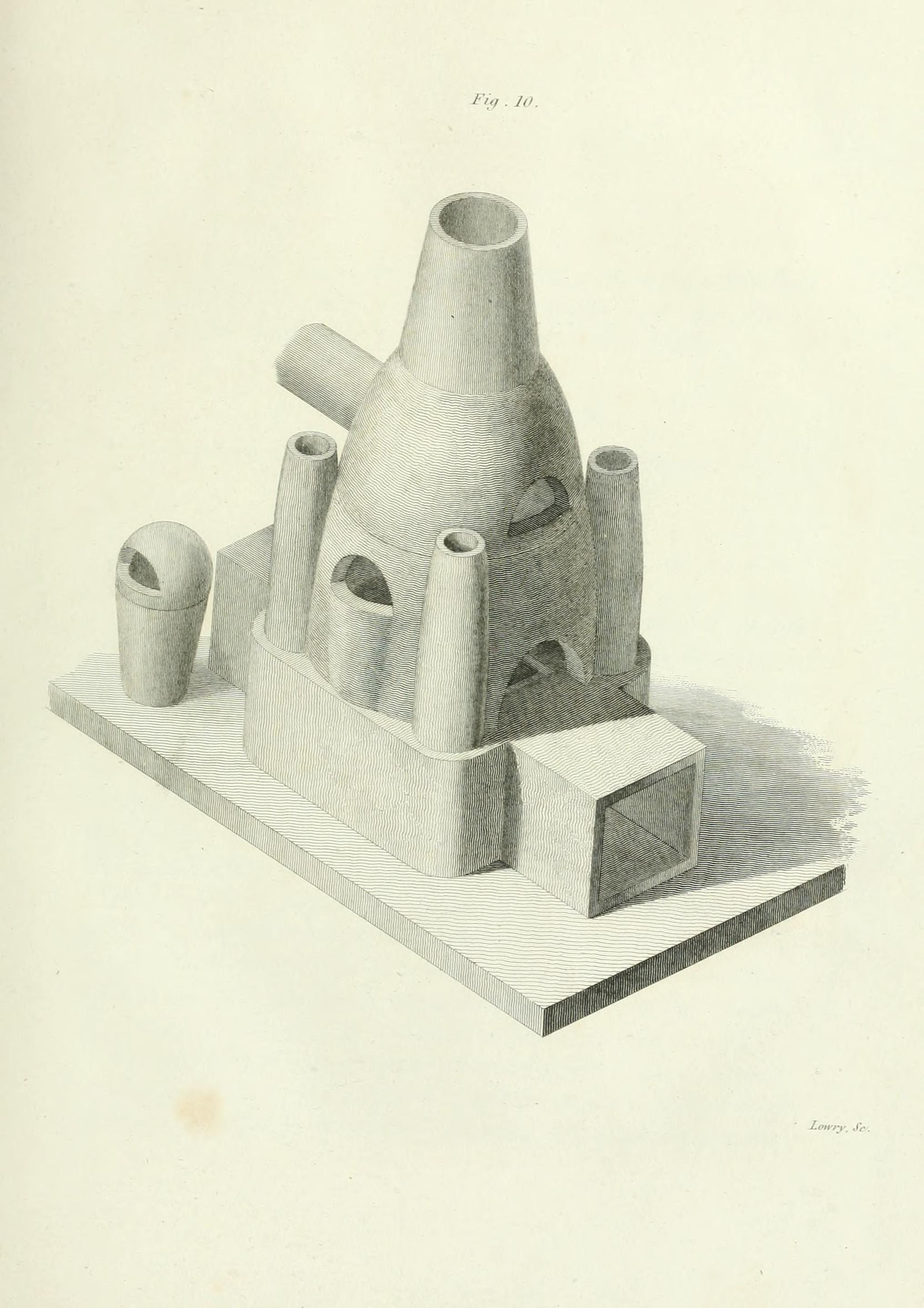 Illustration in William Farish’s On Isometrical Perspective [Original caption:] Fig. 10. Perspective view of a furnace.